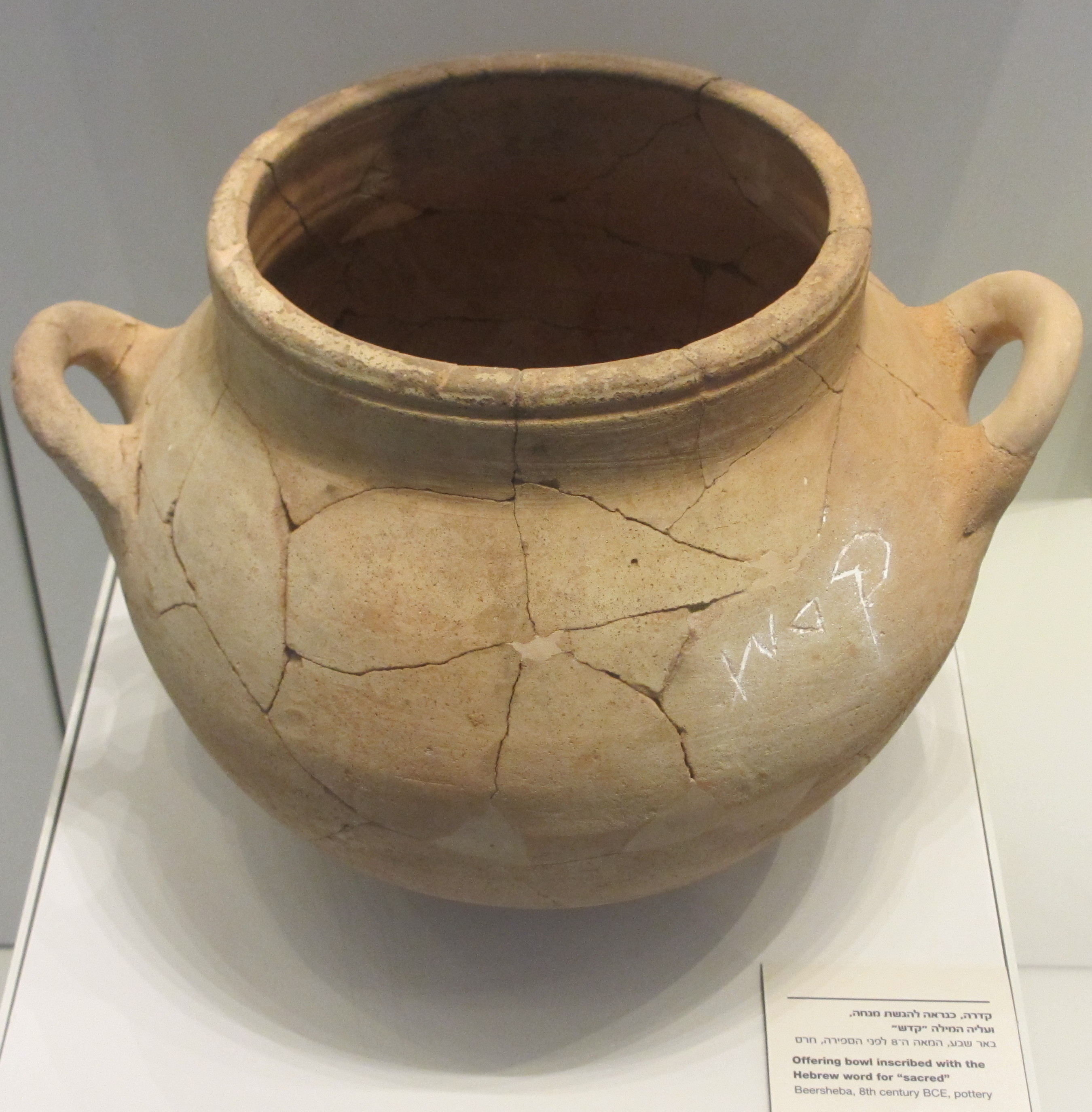 Offering bowl inscribed with hebrew word for "sacred". Beer-Sheva (8th BCE)